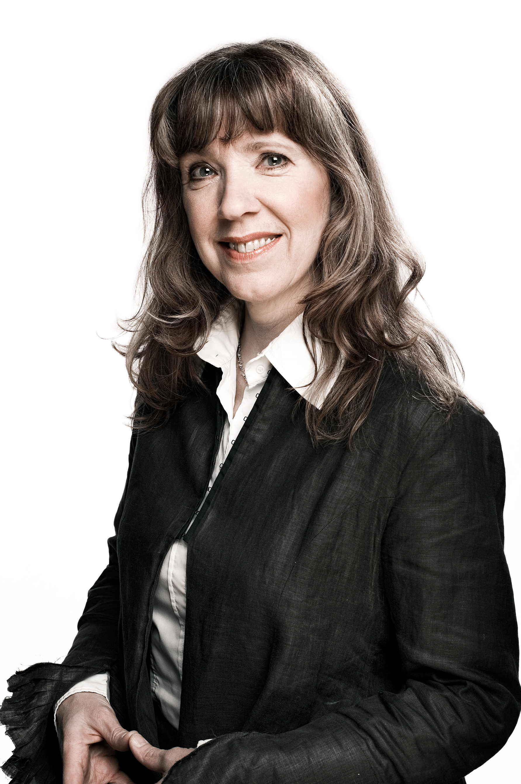 Kolbrún Halldórsdóttir, MP of the Icleandic Left-Green movement